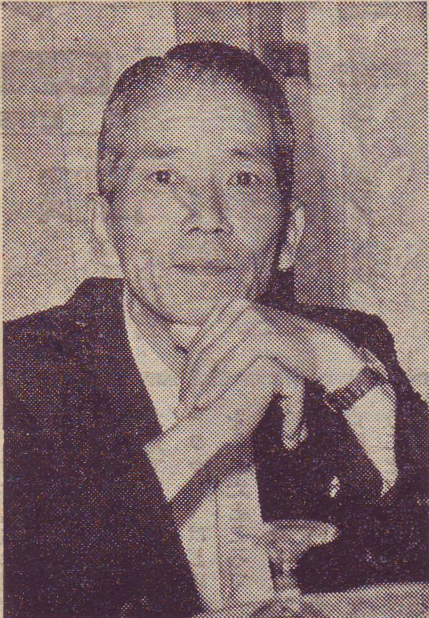 Shinji Hamazaki. taken in 1959.